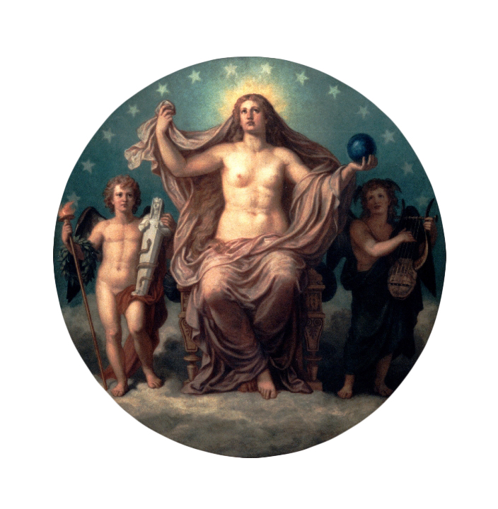 Ceiling painting above the grand staircase